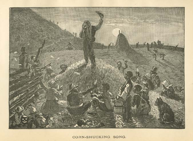 "Corn Shucking Song", from Uncle Remus, His Songs and His Sayings: The Folk-Lore of the Old Plantation, by Joel Chandler Harris, p. 158a. Illustrations by Frederick S. Church and James H. Moser. New York: D. Appleton and Company, 1881.